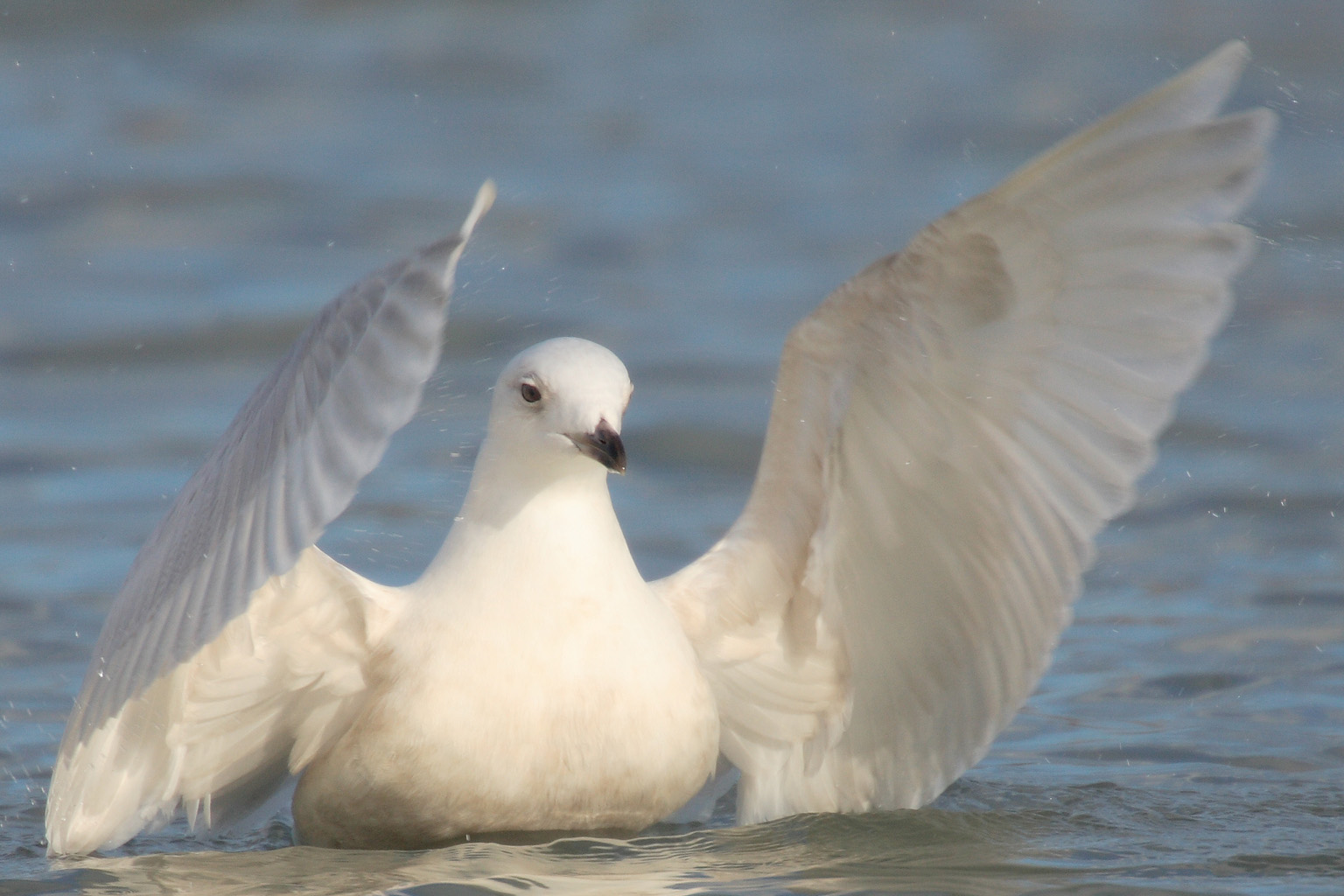 Iceland Gull Larus glaucoides, Bluffer's Park, Toronto, Canada. A first winter individual, taking a bath. Note the pale colour, dark bill, and lack of black near tips of wings.